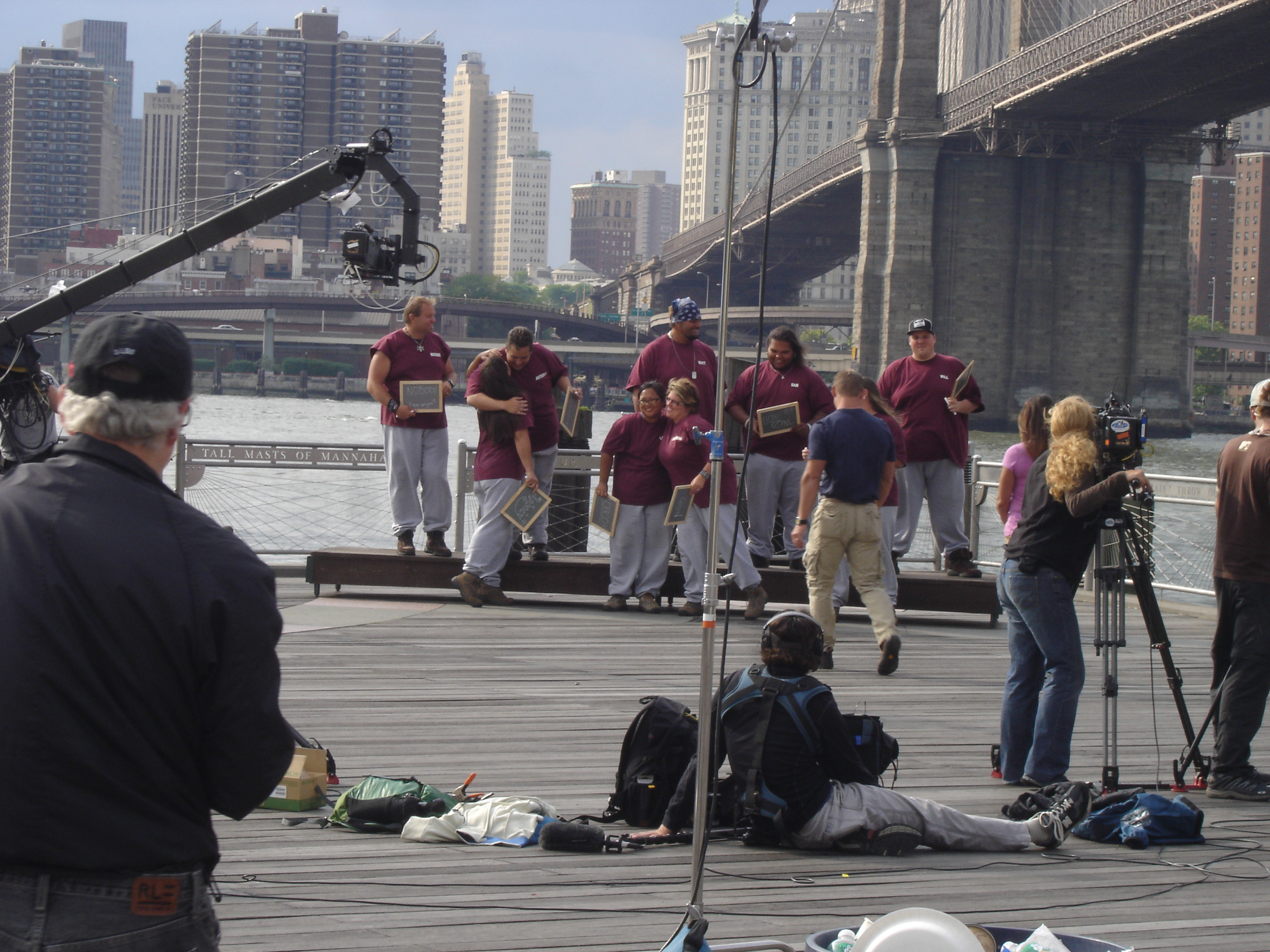 Caught a picture of a taping of the show Fat March on my senior trip